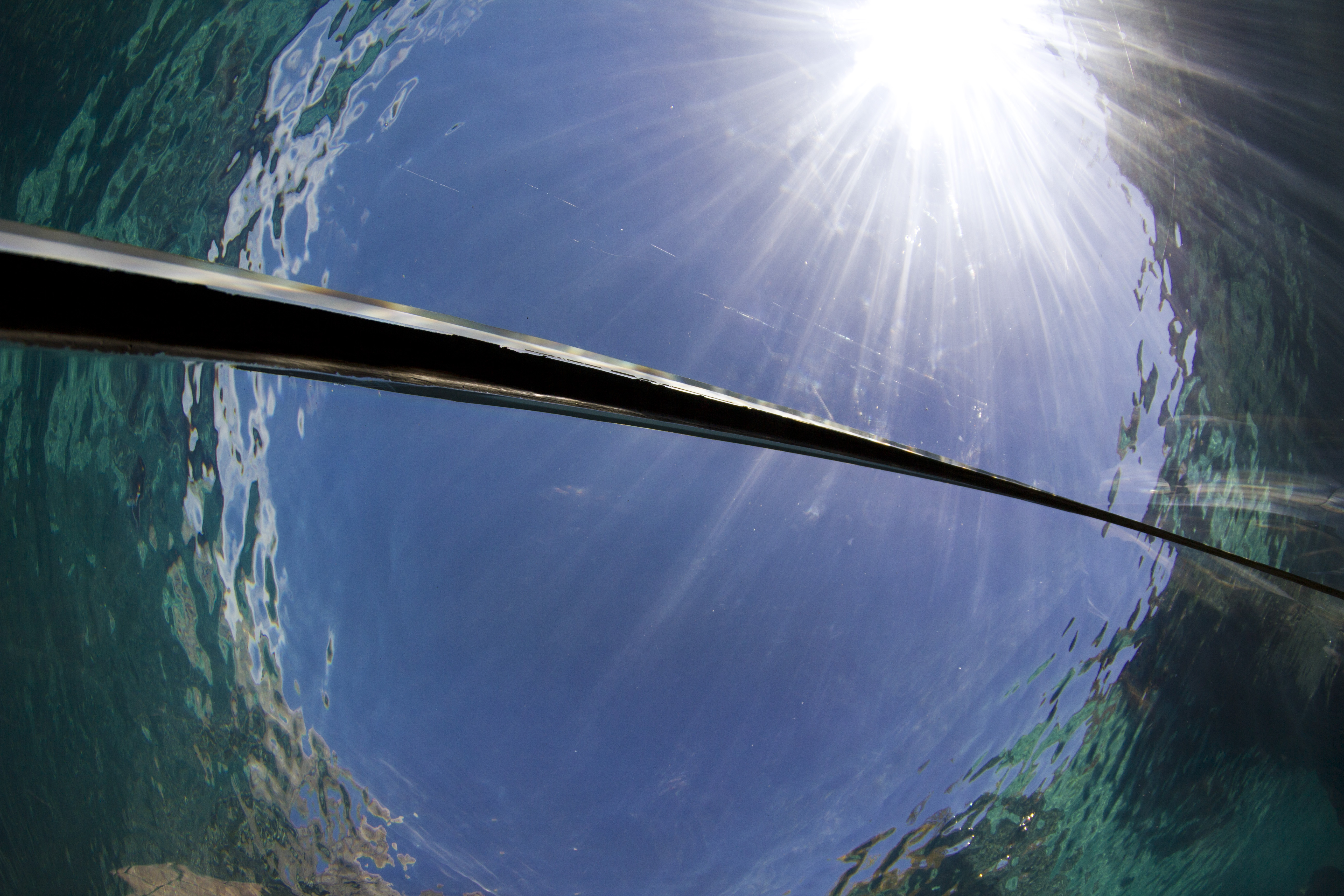 Snell's window as seen through an underwater tunnel at the St. Louis Zoo. Caustics in the water are visible near the sun.